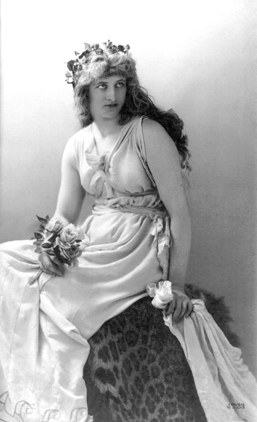 American actress Mary Anderson (1859)-1940) as Perdita in Shakespeare's Winter's Tale photographed by Henry Van der Weyde (1879-1929)